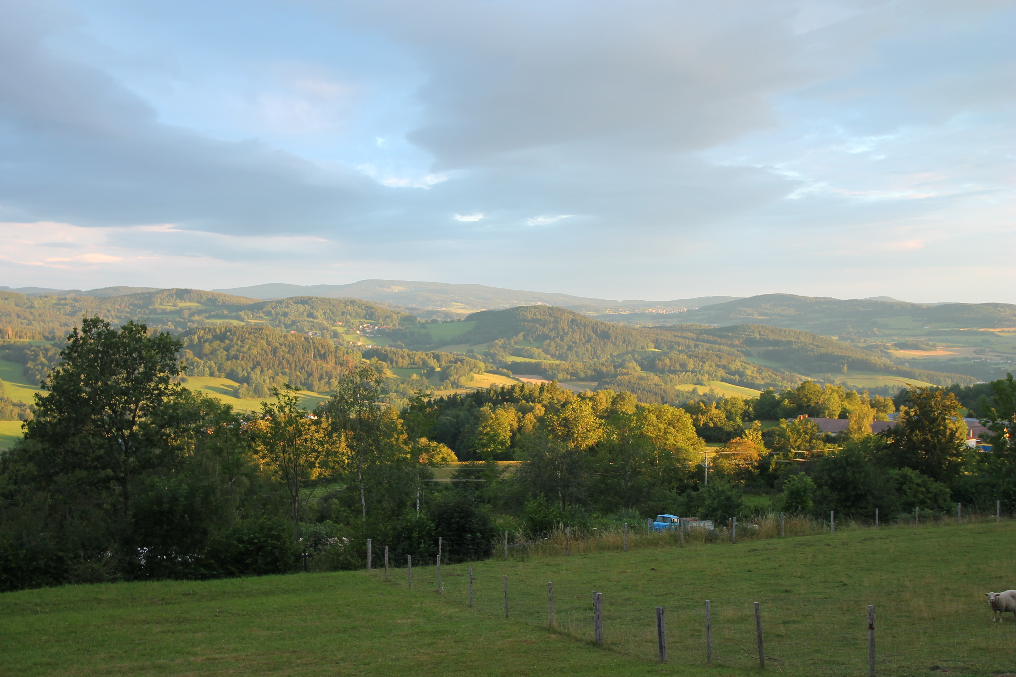 View of Javorník mountain and Šumava foothills from Štítkov village